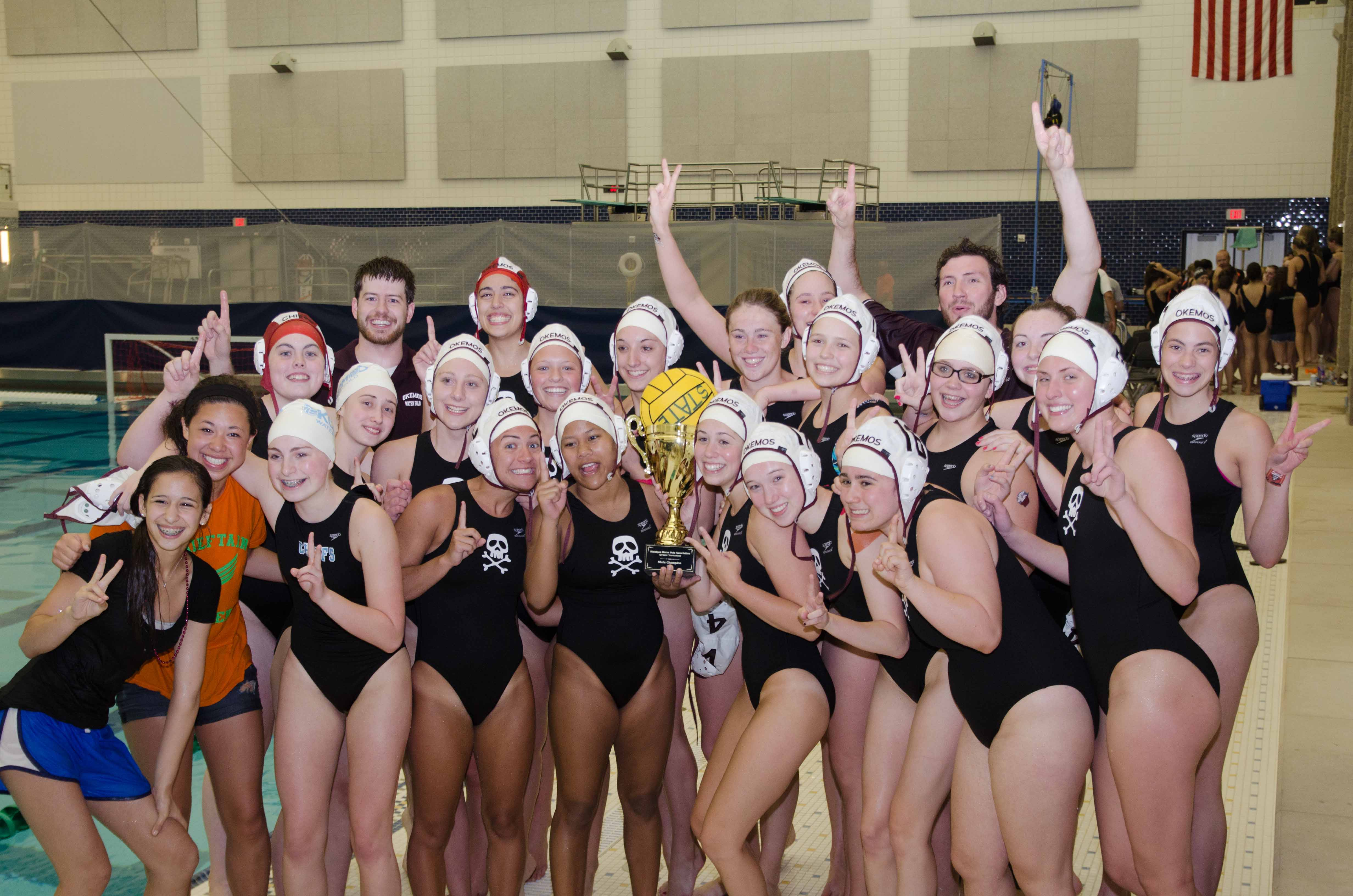 2011 Okemos High School Girls' Water Polo State Championship Team.